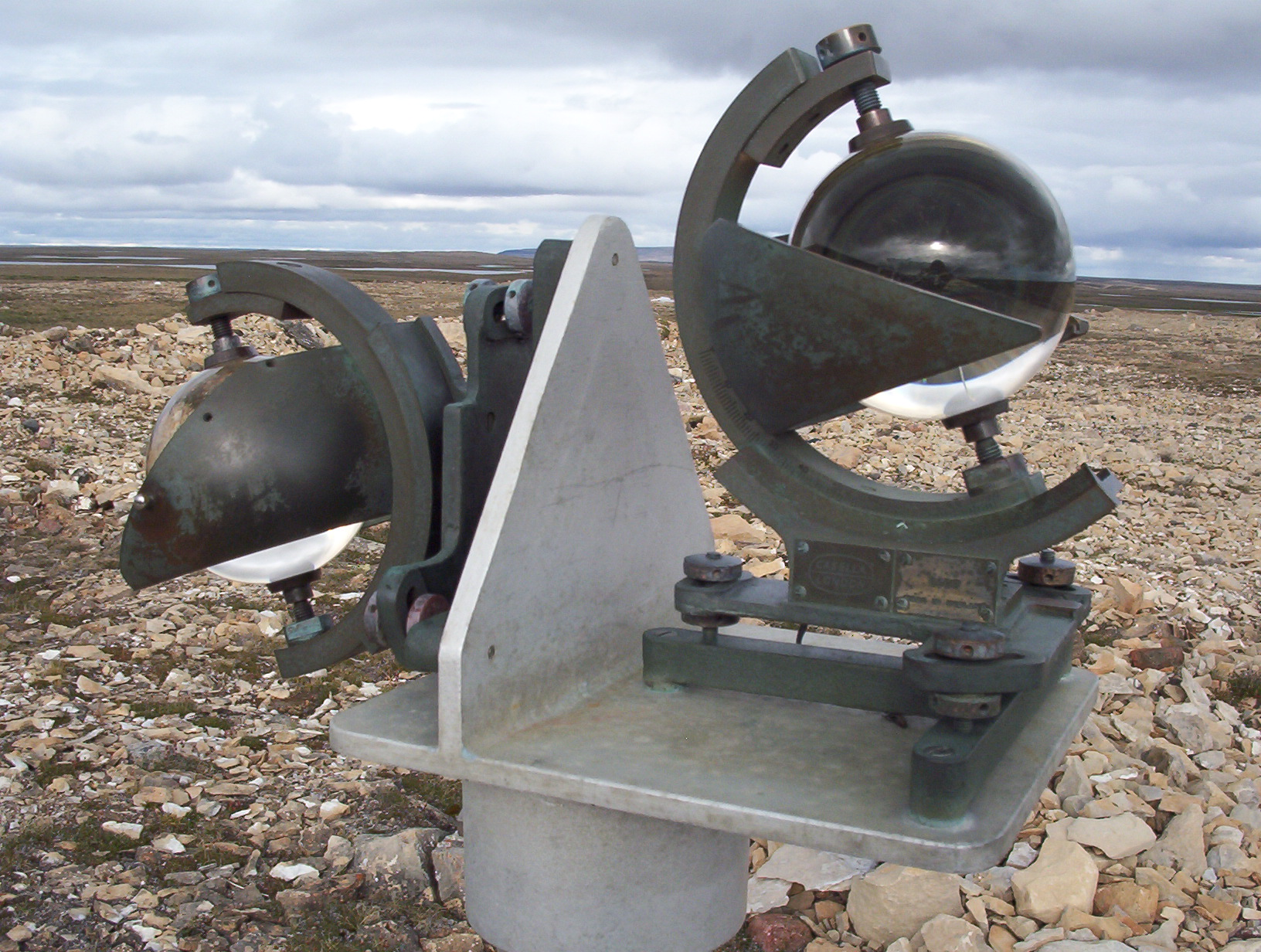 Adapted Campbell-Stokes Recorder for use in Polar regions. Picture taken 06th August 2005 at Cambridge Bay, Nunavut, Canada.